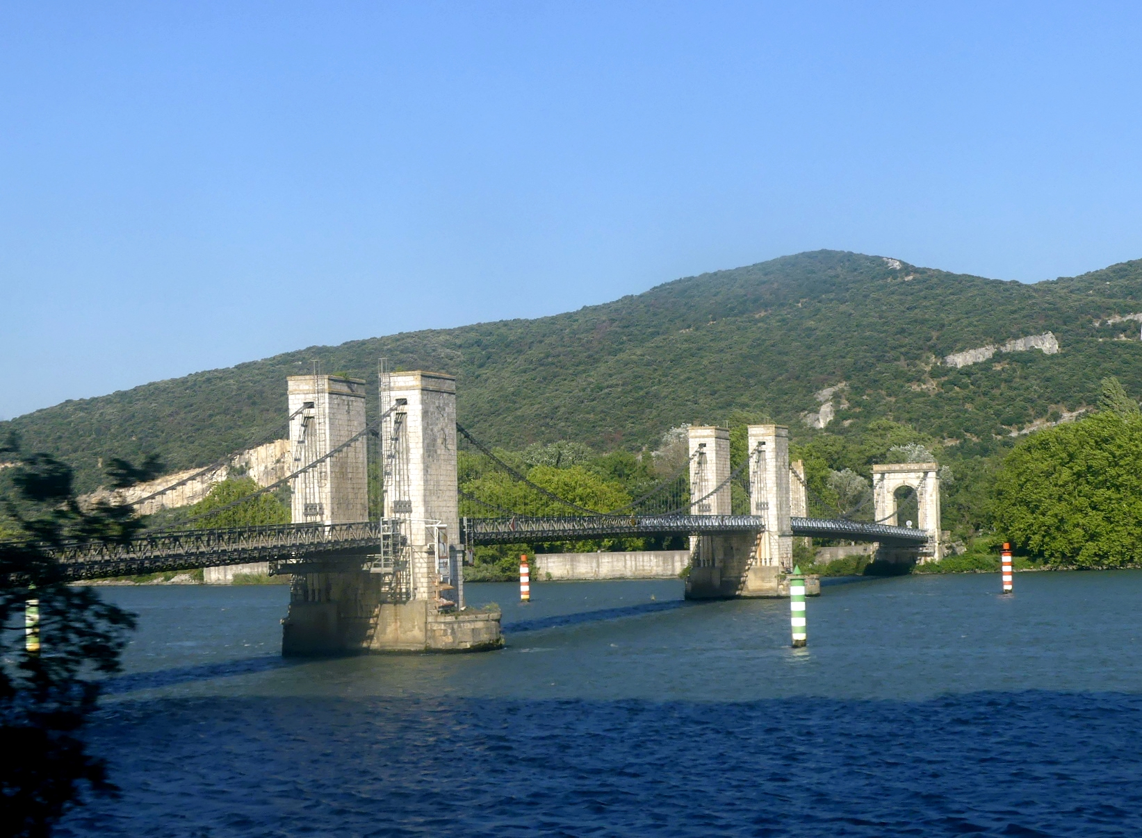 Sight, in the morning from the railway, of the Pont du Robinet bridge crossing the Rhône river, between Drôme and Ardèche, France.